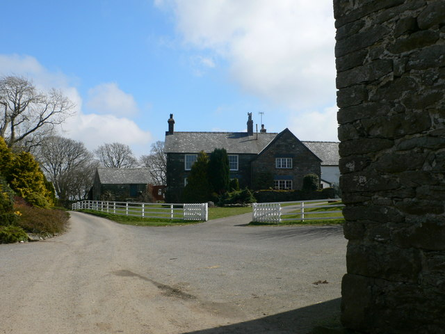 Plas Iolyn, near to Rhydlydan, Conwy County, Wales. Plas Iolyn is a Tudor farmhouse near Pentrefoelas. It was the home of the legendary Tomos Prys (1563-1634), a merchant and sailor, sometime pirate, who sailed the Caribbean. He brought back tobacco to Britain and claimed that he and his friends were the first to smoke tobacco on the streets of London. He was also a poet.